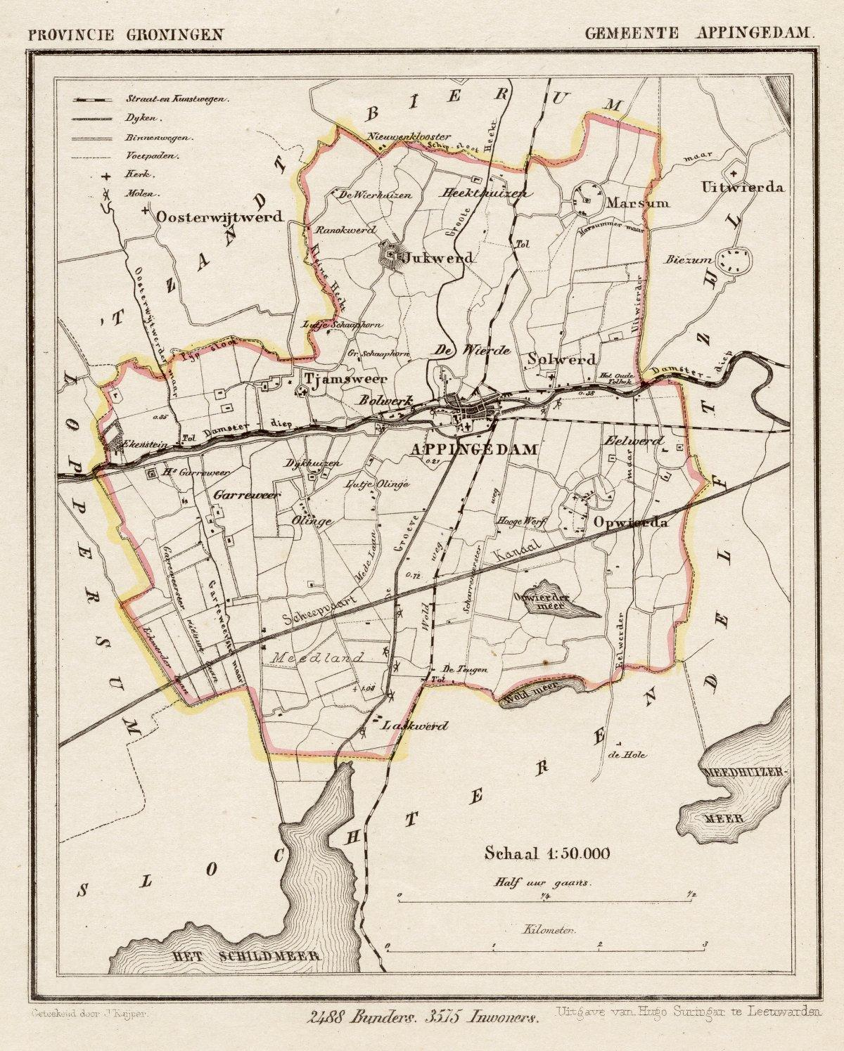 Map from around 1866-1970 of the municipality of Appingedam (Province of Groningen, Netherlands).